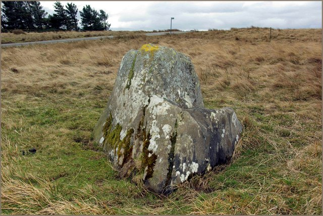 Butter Stone Cotherstone, Butter Stone This natural stone may have been used in the medieval (1066 to 1540) period during times of illness or plague. Food and money would have been left here for the village, so those bringing the food did not come into contact with the infected villagers.